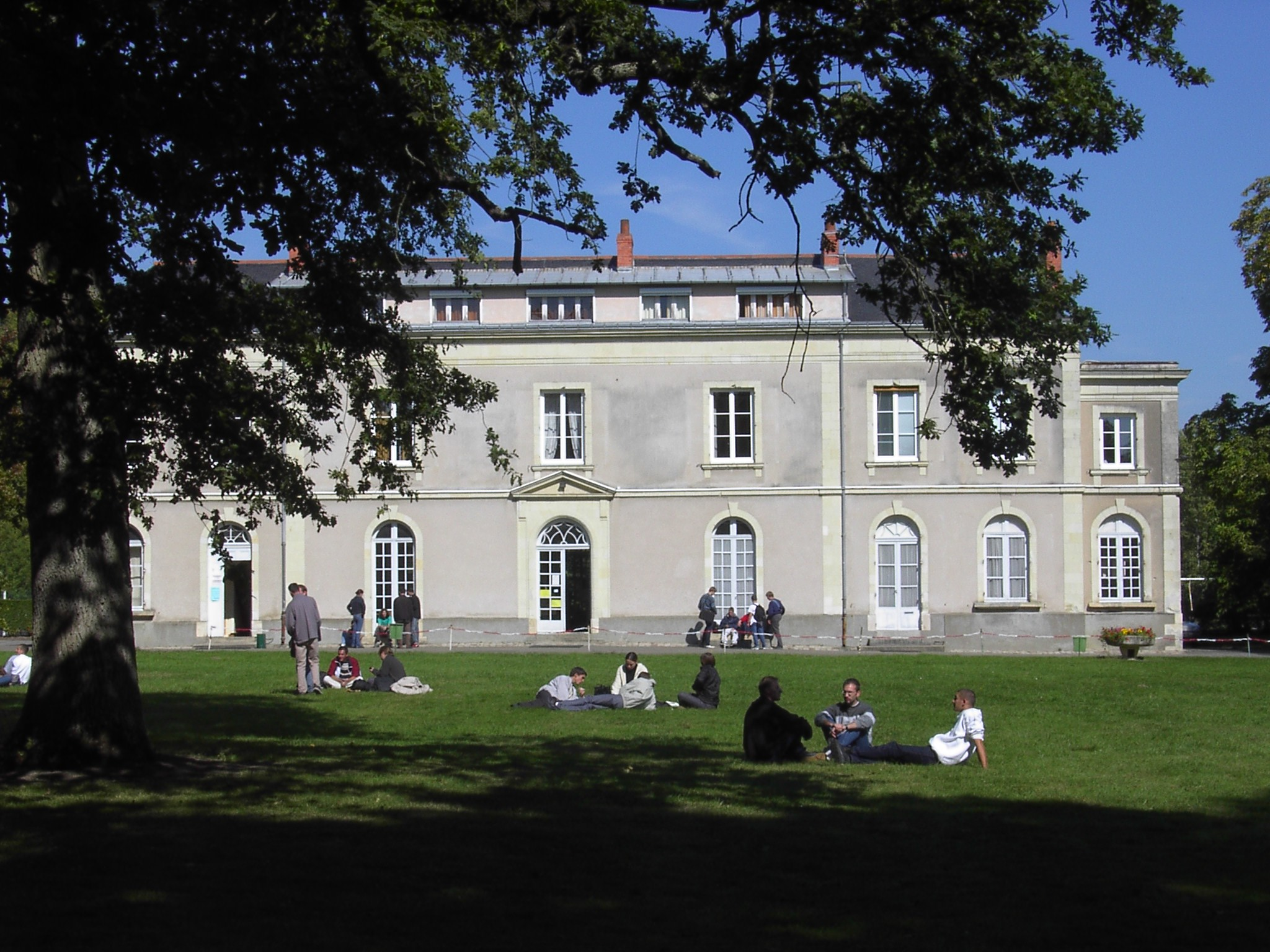 Baronnerie castle.